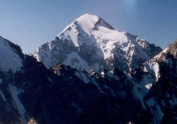 Koshtan-Tau Mount